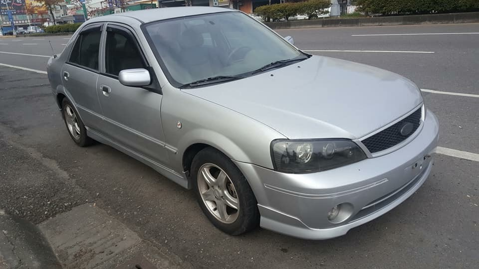 Ford Tierra Aero front